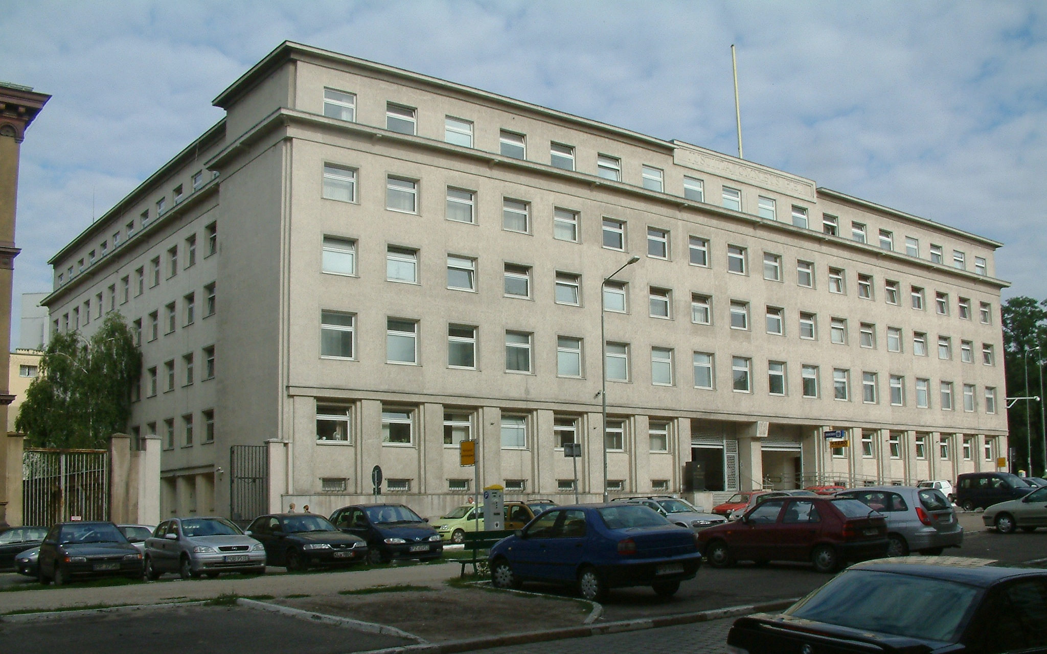 Regional Court in Poznań